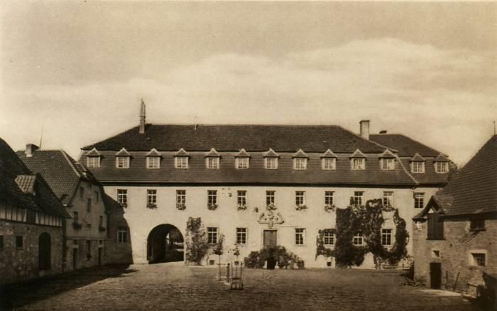 Reifensteiner Schule Beinrode 1930